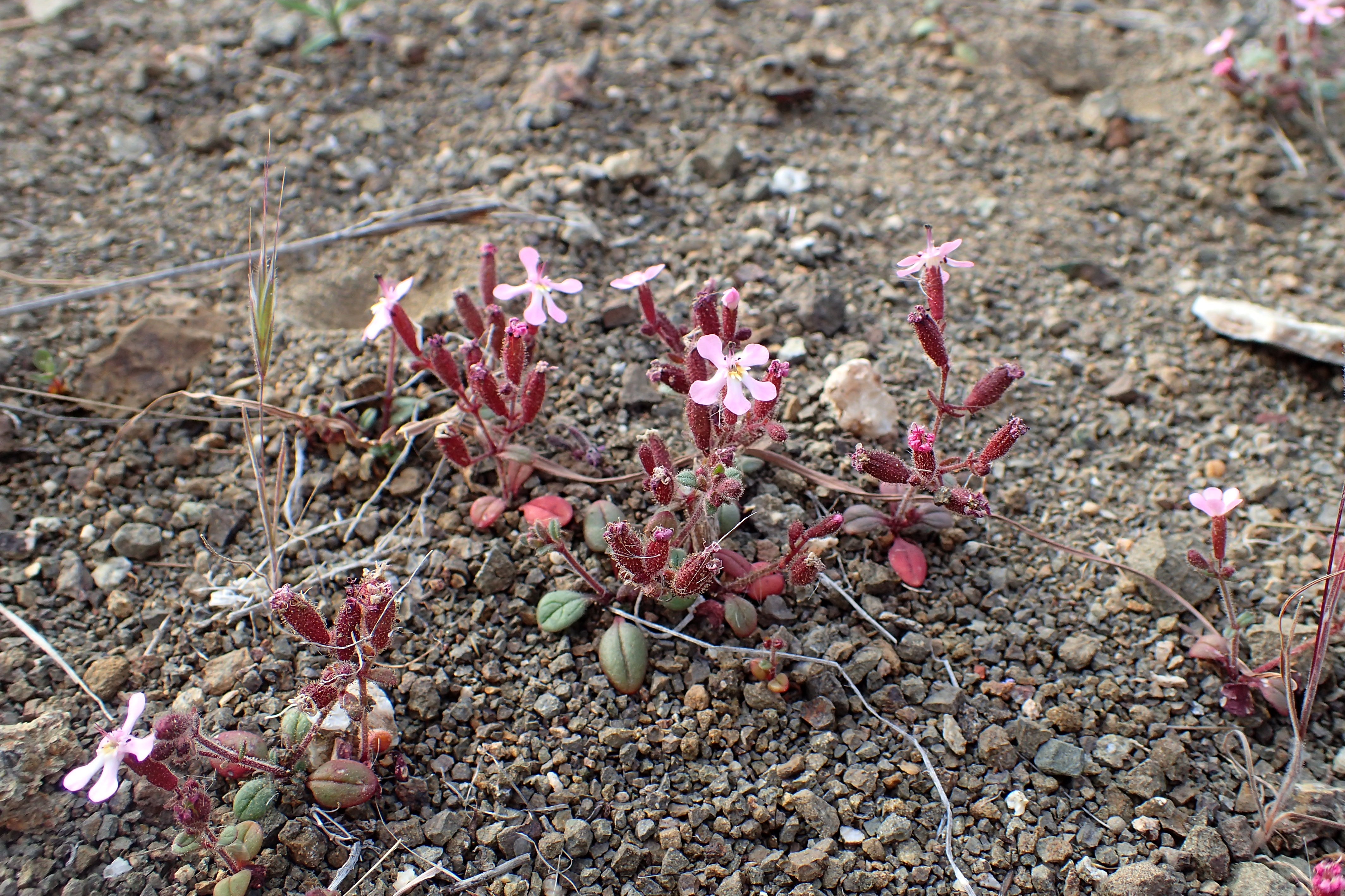 Saponaria mesogitana in Analiontas, Cyprus